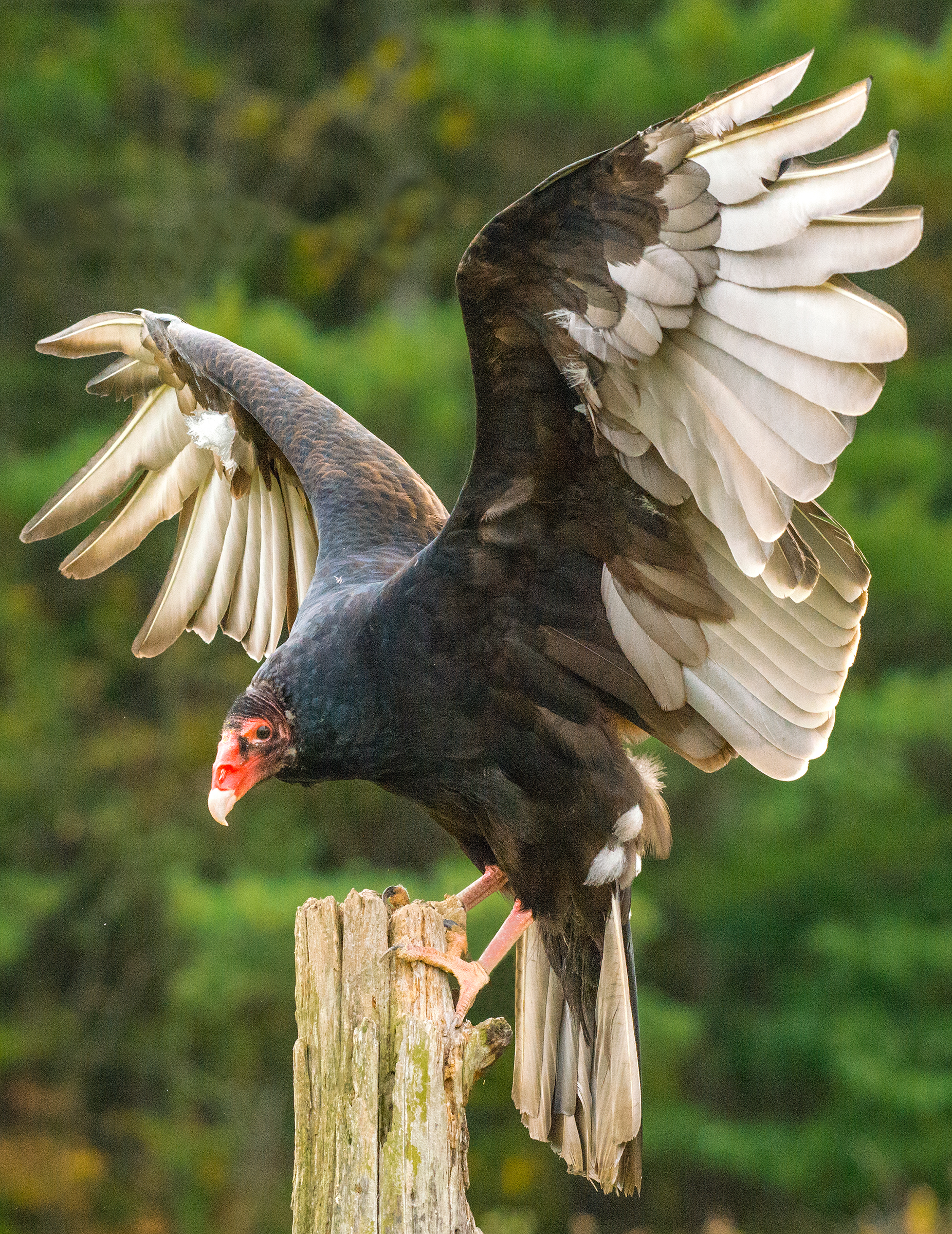 Turkey Vulture C. a. septentrionalis (Canada)